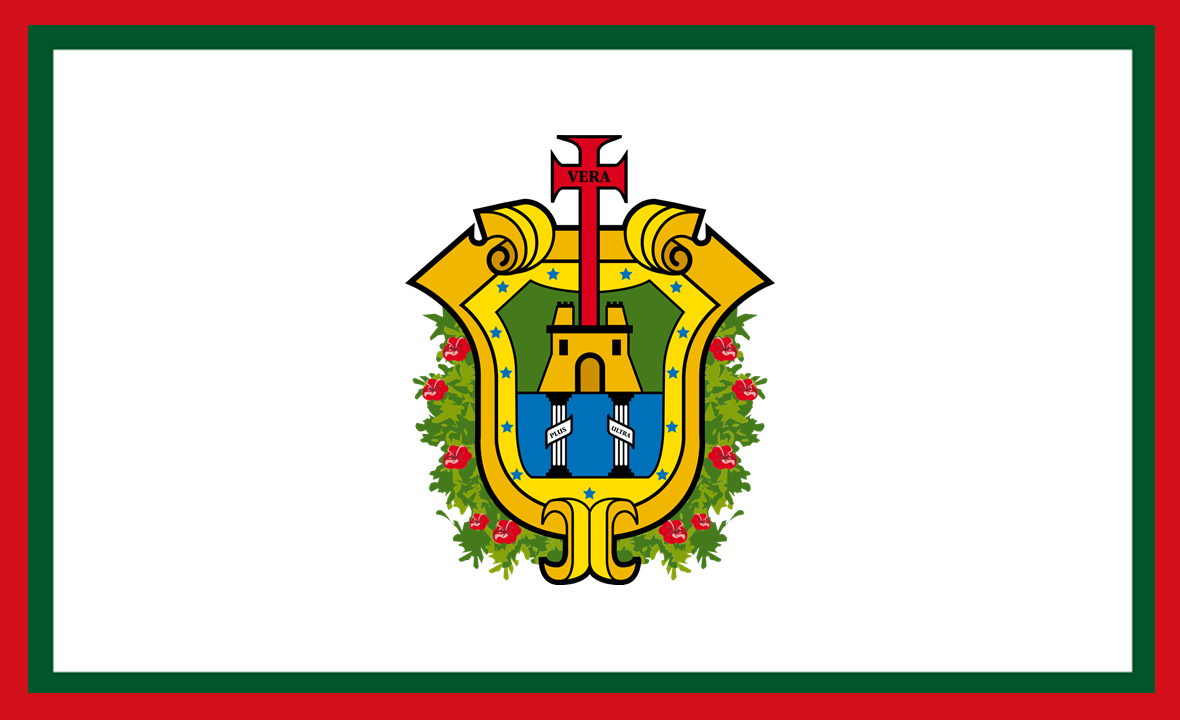 Flag of Veracruz State, Mexico (government flag)